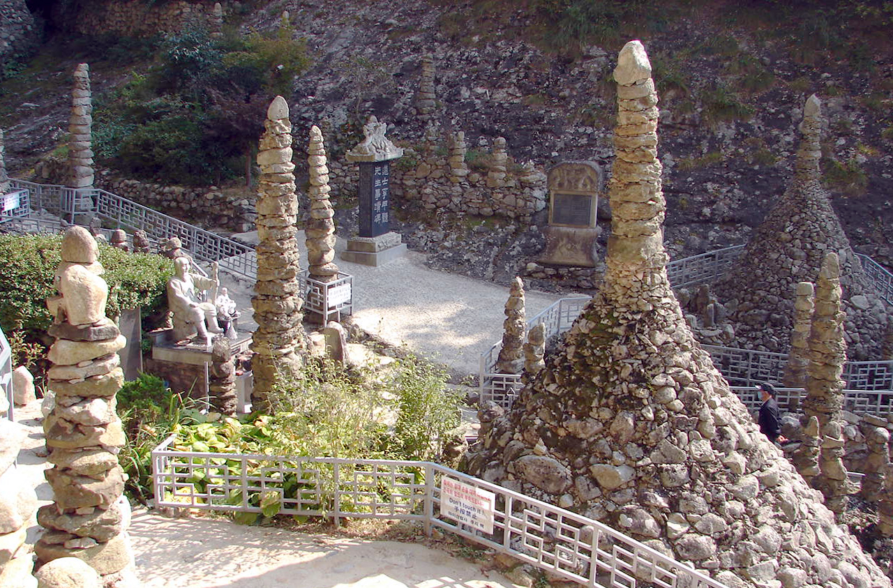 Tapsa (Buddhist Temple) and the Stone Pagodas of Maisan (Hourse Ear Mountain) in Jinan County, North Jeolla Province, South Korea.